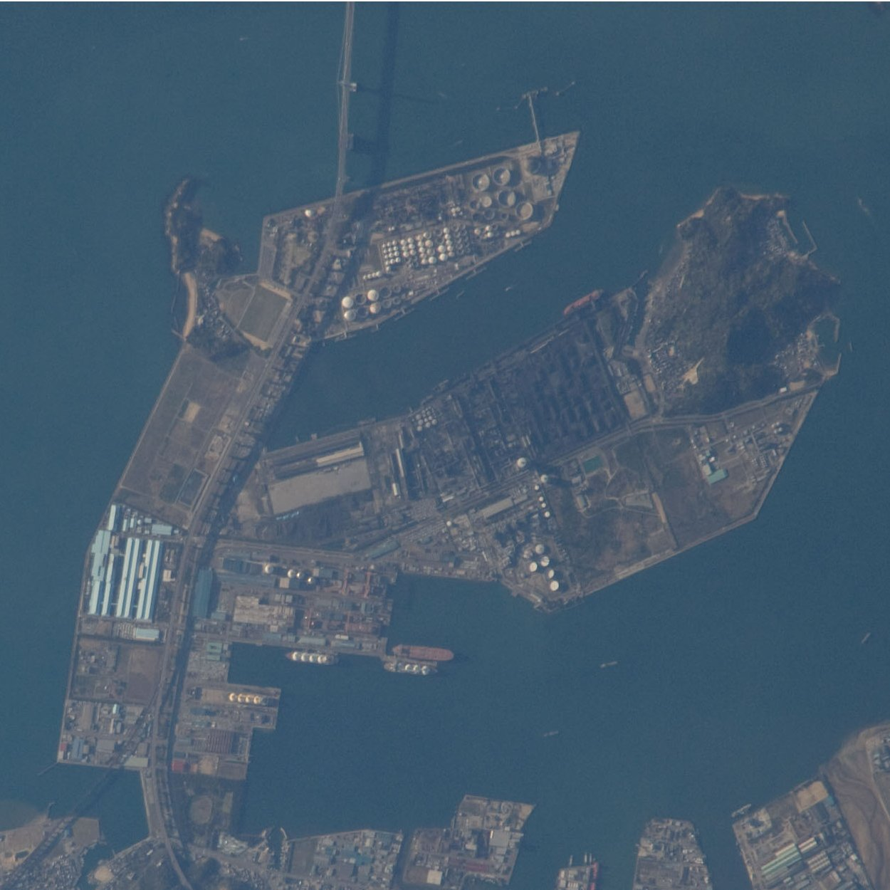 Bannosu Coastal Industrial Park in Sakaide, Kagawa, Japan. From an uncopyrighted image posted on the National Aeronautics and Space Administration's web site.